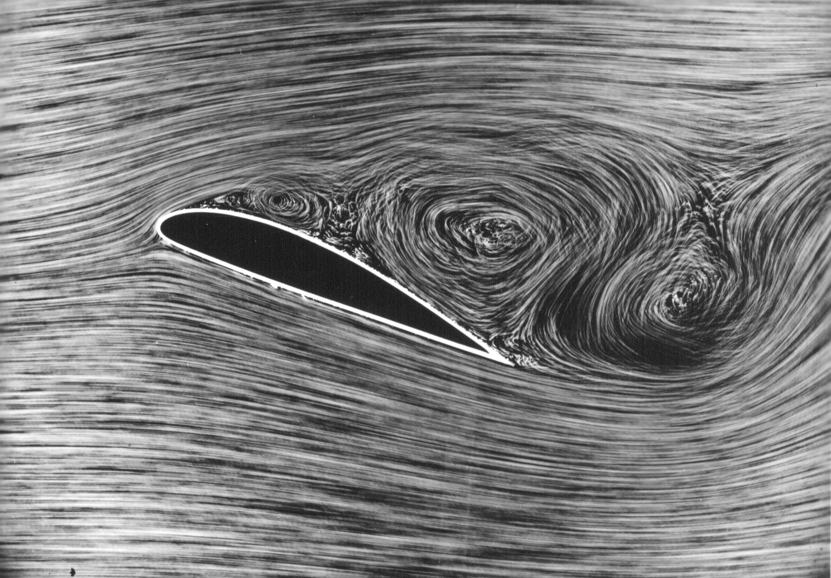 Photograph of a airfoil in a wind tunnel, showing separated flow over the top surface.